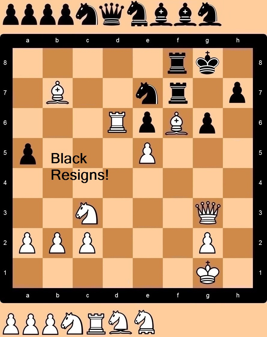 Sample image of a chess variant game that can be played at an on-line public chess forum. The game includes chancellor and archbishop chess pieces (all shown as captured). White is in a strongly superior position, and black has resigned.